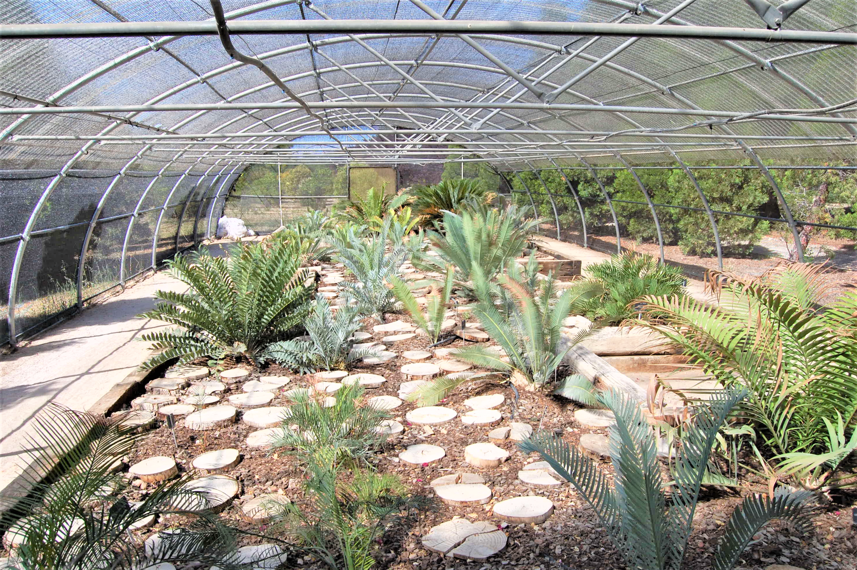 Royal Botanic Gardens, Juan Carlos I, located on the campus of Alcalá de Henares (University of Alcalá). Founded in 1990. Cycadales Greenhouses.